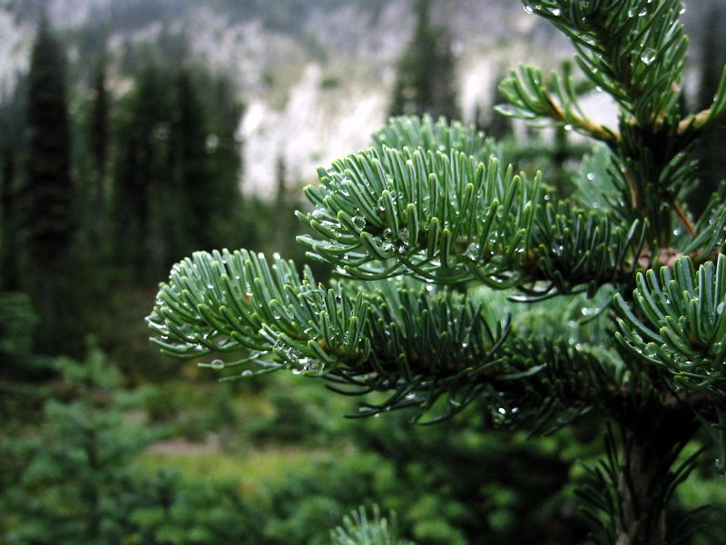 Subalpine Fir Description: Subalpine Fir (Abies lasiocarpa) foliage with dew. Other trees and the south face of Tolmie Peak are behind. Viewpoint location: Eunice Lake, Mount Rainier National Park, Washington, USA. GPS: UTM 10 585544E 5200683N (WGS84/NAD83)USGS Mowich Lake Quad [1] View direction: North Viewpoint elevation: 5354' Date and time: 2004:09:20 13:06:49 PDT Camera: Canon PowerShot S110 Photographer: Walter Siegmund ©2005 Walter Siegmund